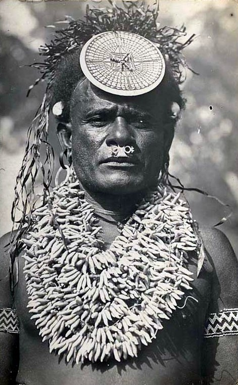 Portrait of Irobaoa of Suafa, north Malaita, Solomon Islands, probably about 1910. Early real photo postcard, c 1920 (postally unused)